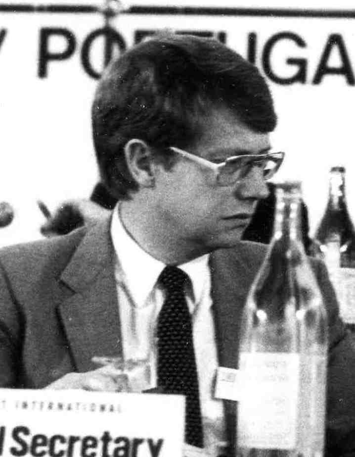 Socialist International Congress 1983. From left to right; outgoing general secretary Bernt Carlsson, Willy Brandt, new general secretary Pentti Väänänen